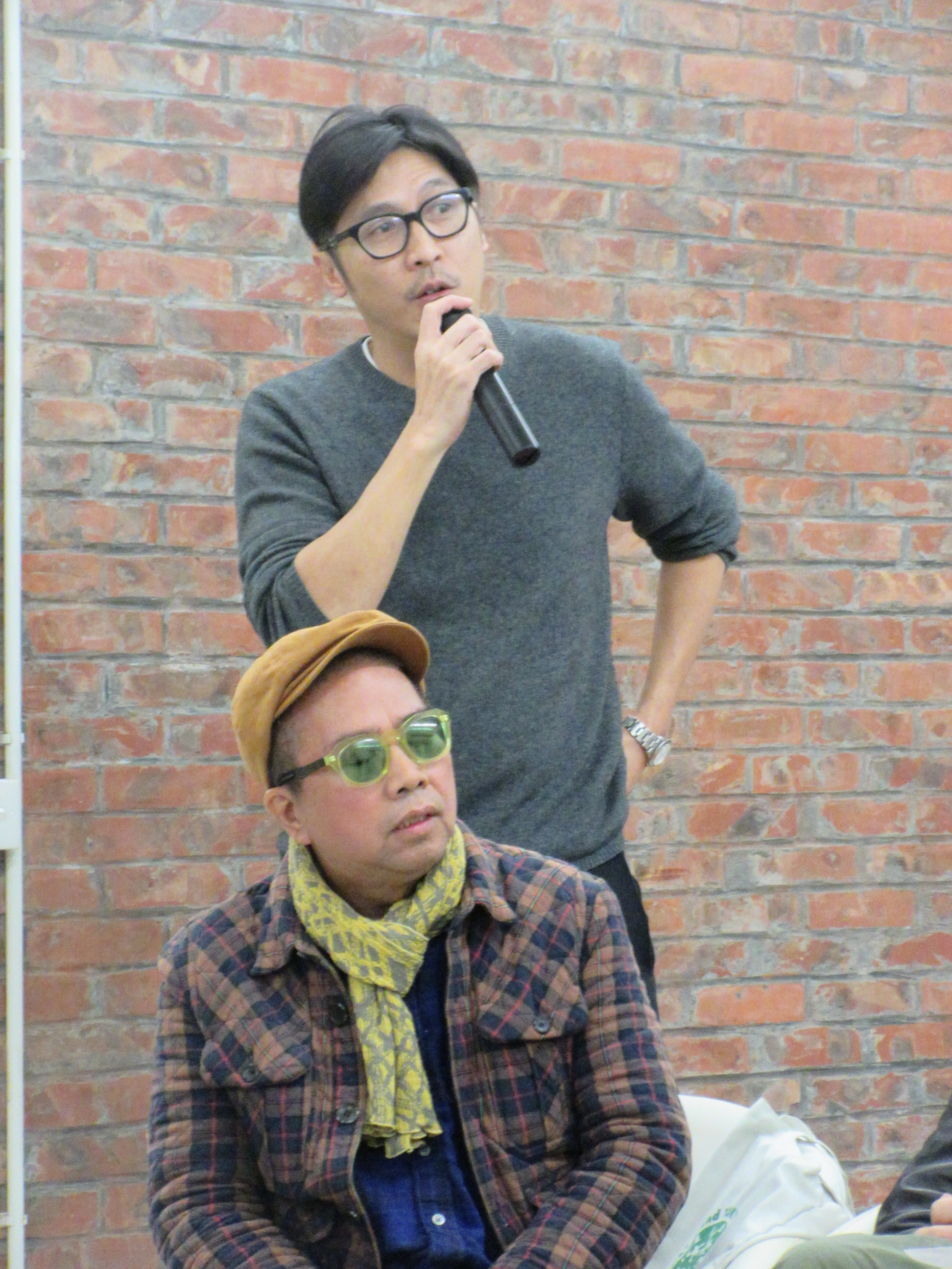 HK Kwun Tong 香港電影導演會 HKFDG movie directorship talk in December 2017